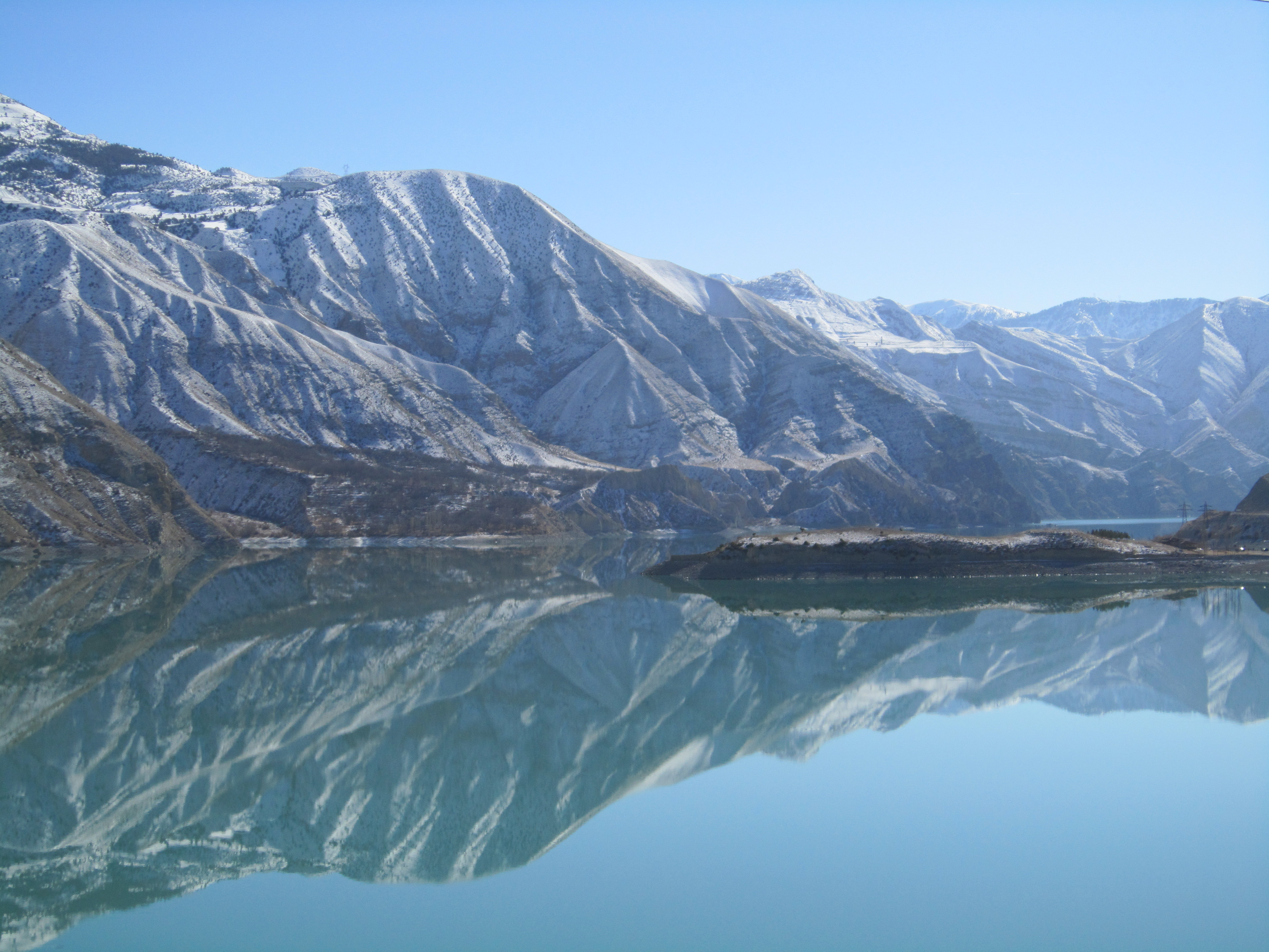 Tortum Dam Lake, February 2012